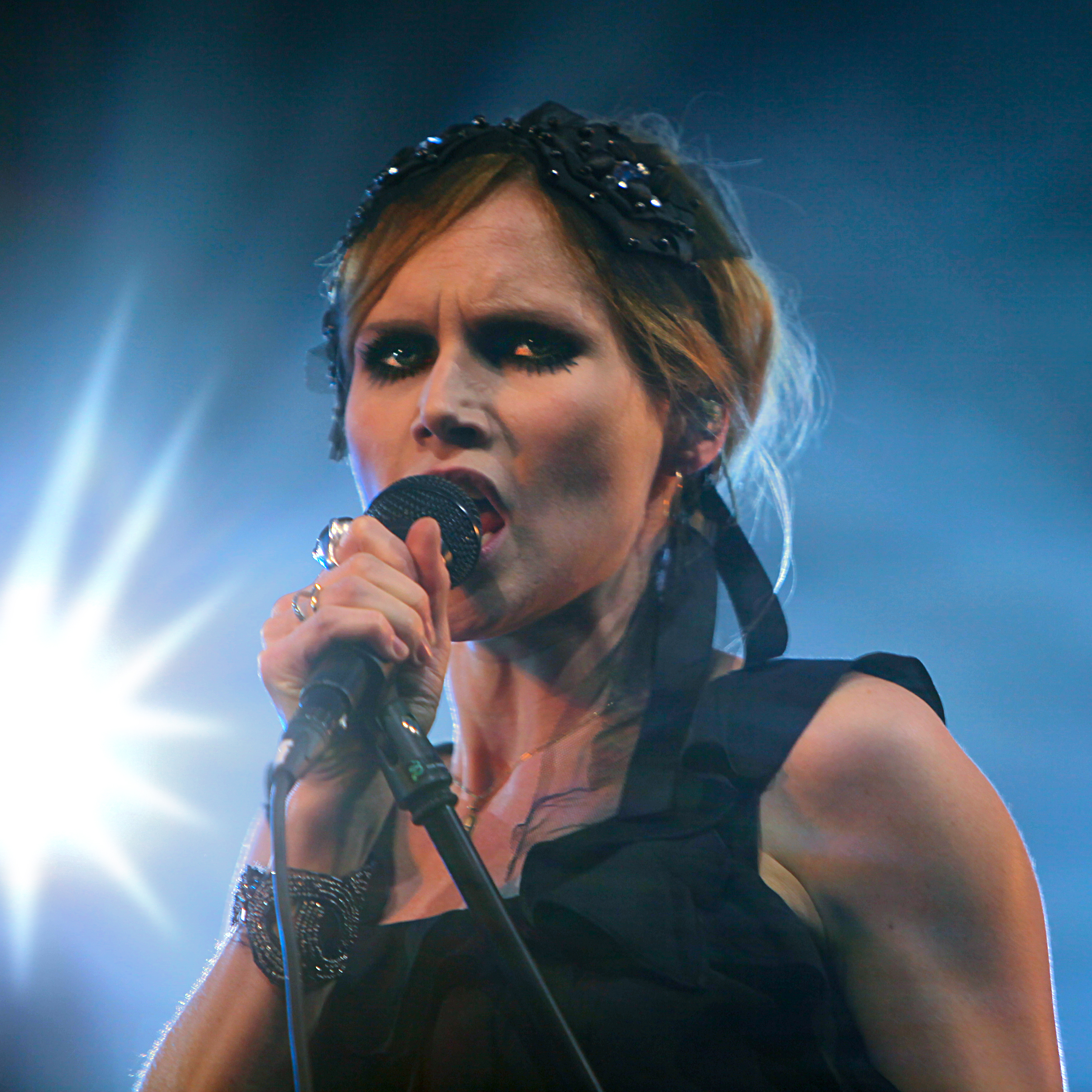 Nina Persson during a concert with her band A Camp, Stockholm Pride Festival, 2009